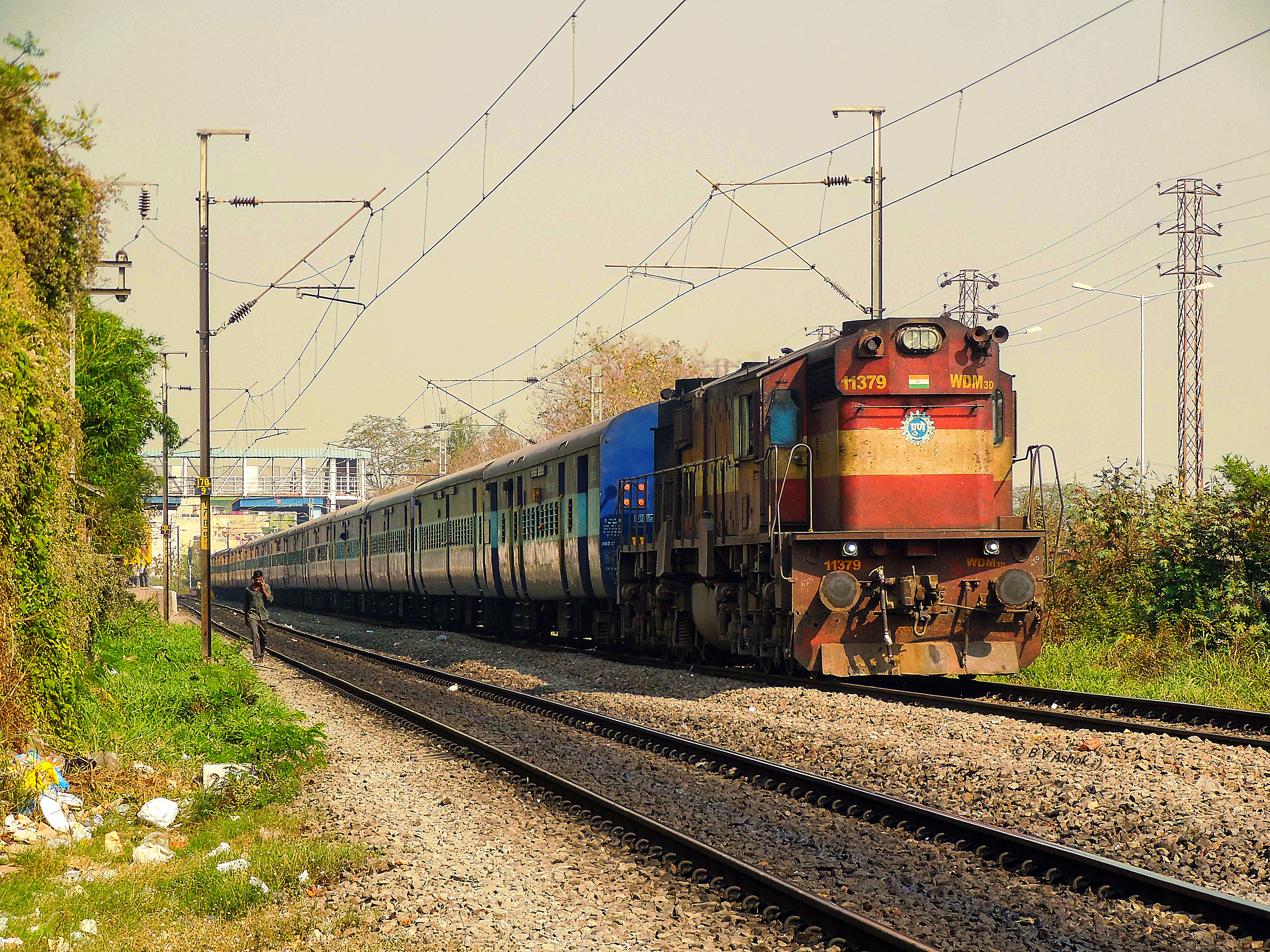 PUNE WDM-3D 11379 cruising towards Begumpet with 17009 Bidar - Hyderabad Intercity Express...